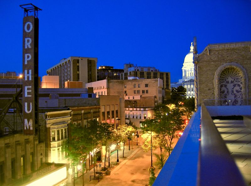 168_68102, Location